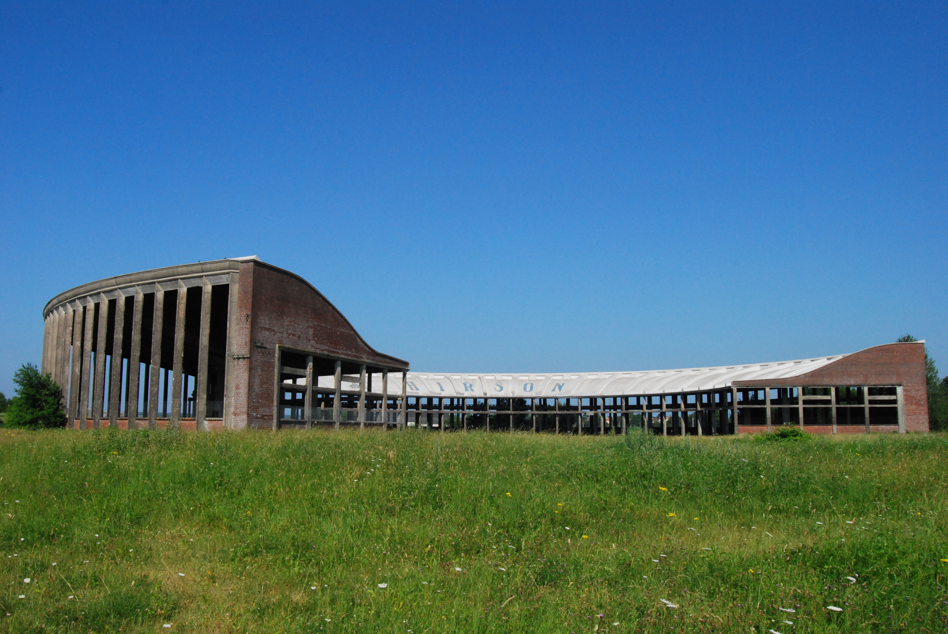 Roundhouse from the Hirson Railway Station